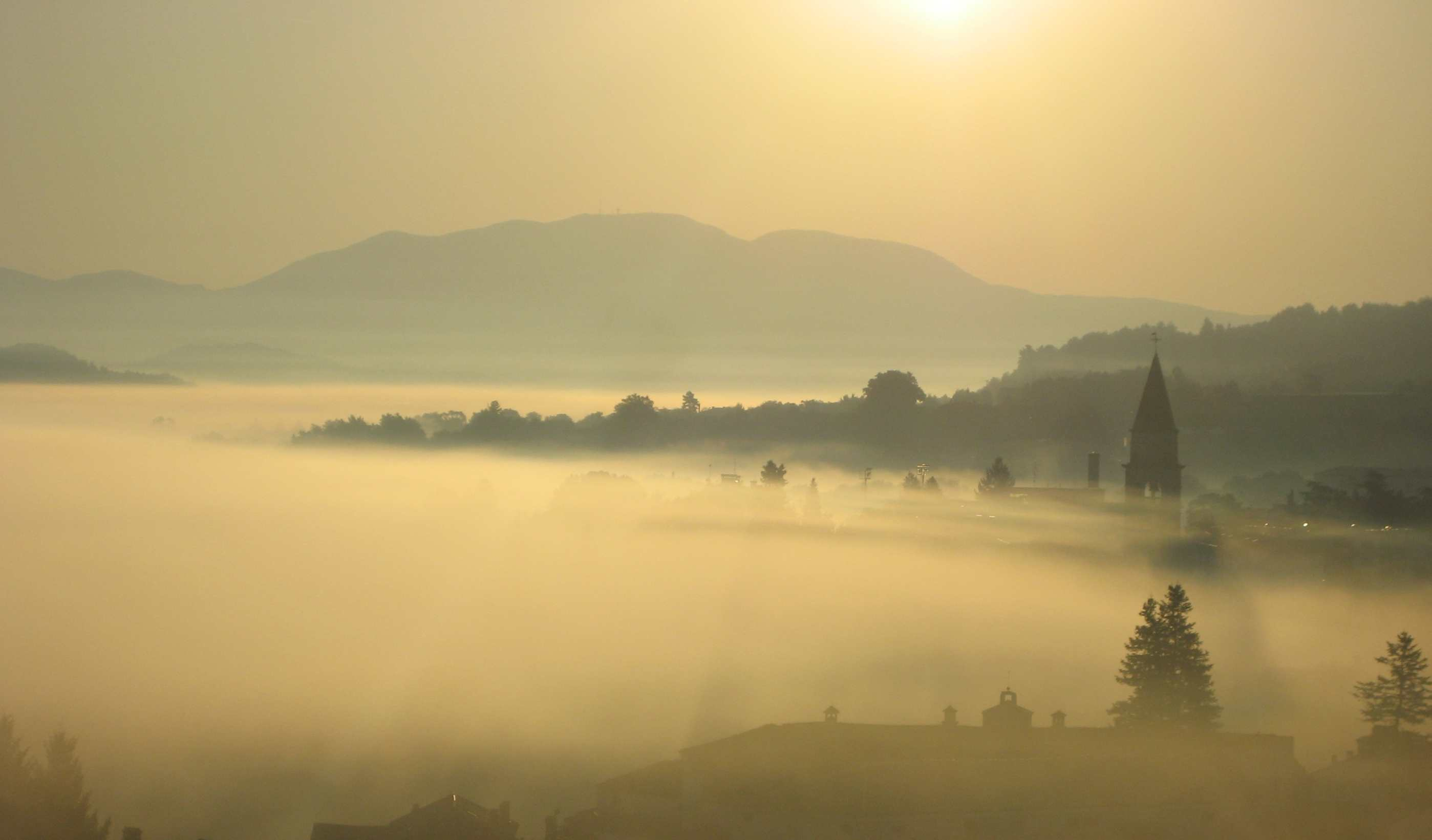 Pazin,_northwest_Croatia